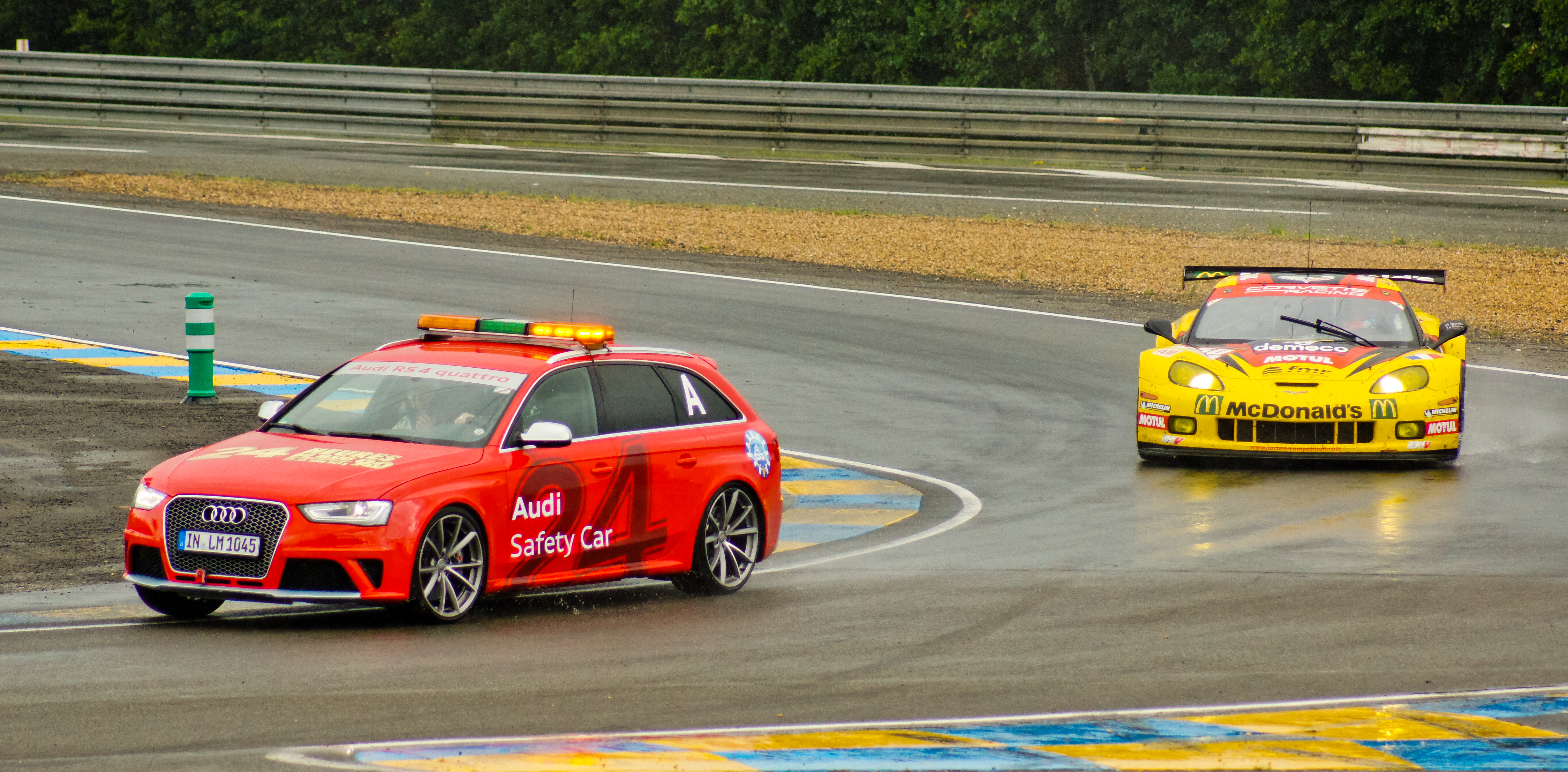 No. 50 Corvette C6.R of Larbre Compétition behind the Audi RS 4 Avant quattro during the 2013 24 Hours of Le Mans